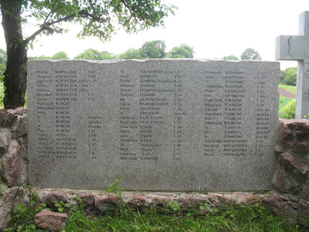 Graveyard in Berezowica Mala, Ukraine